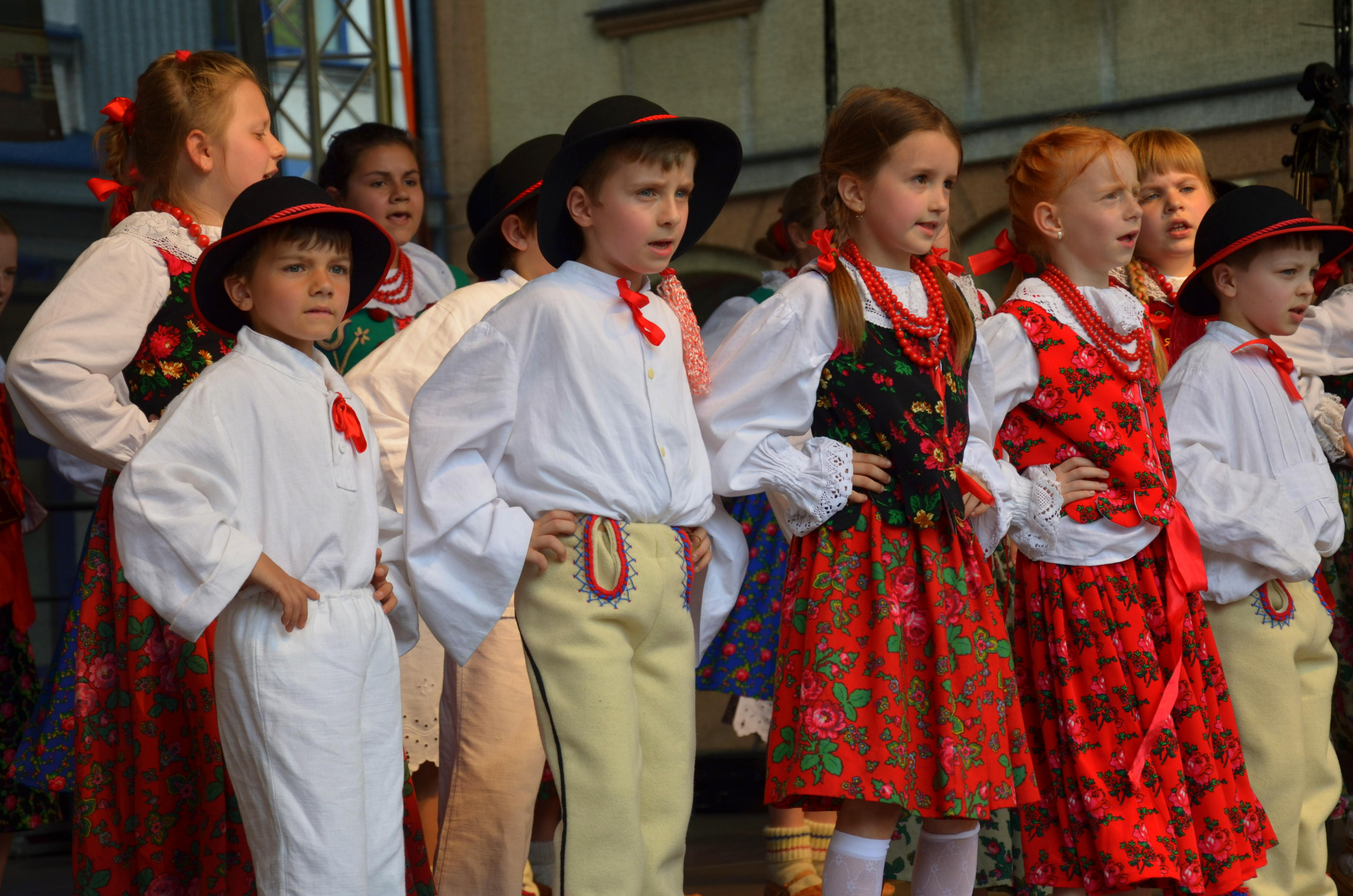 Folklore of Silesia